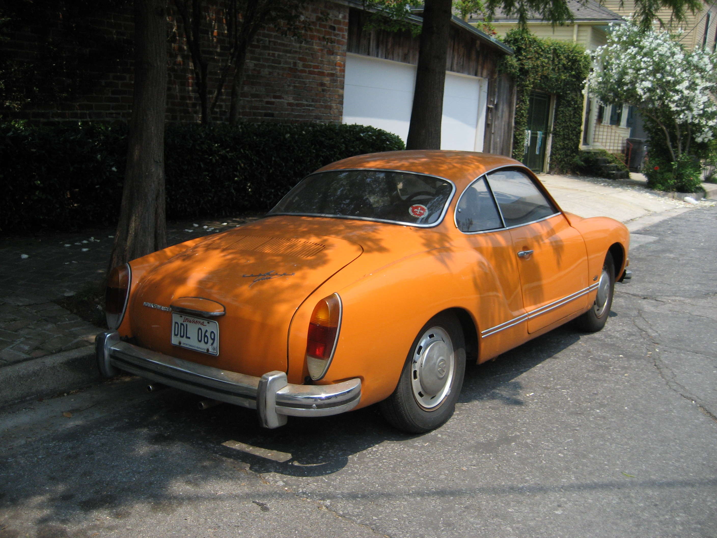 Karmann Ghia seen on street in Faubourg Marigny neighborhood of New Orleans. Back right view.